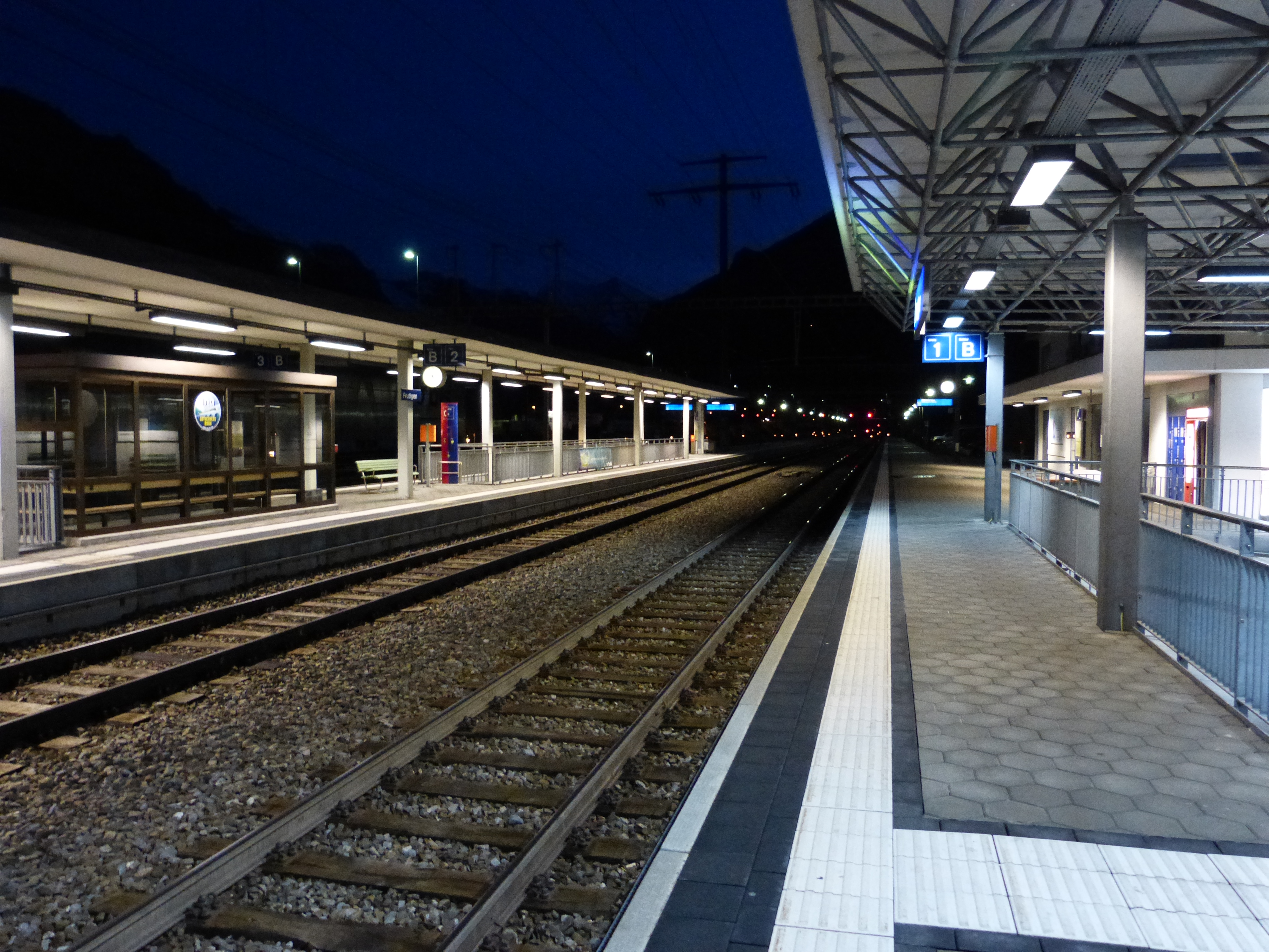 Frutigen's railway station in direction of Lötschberg from track 1.